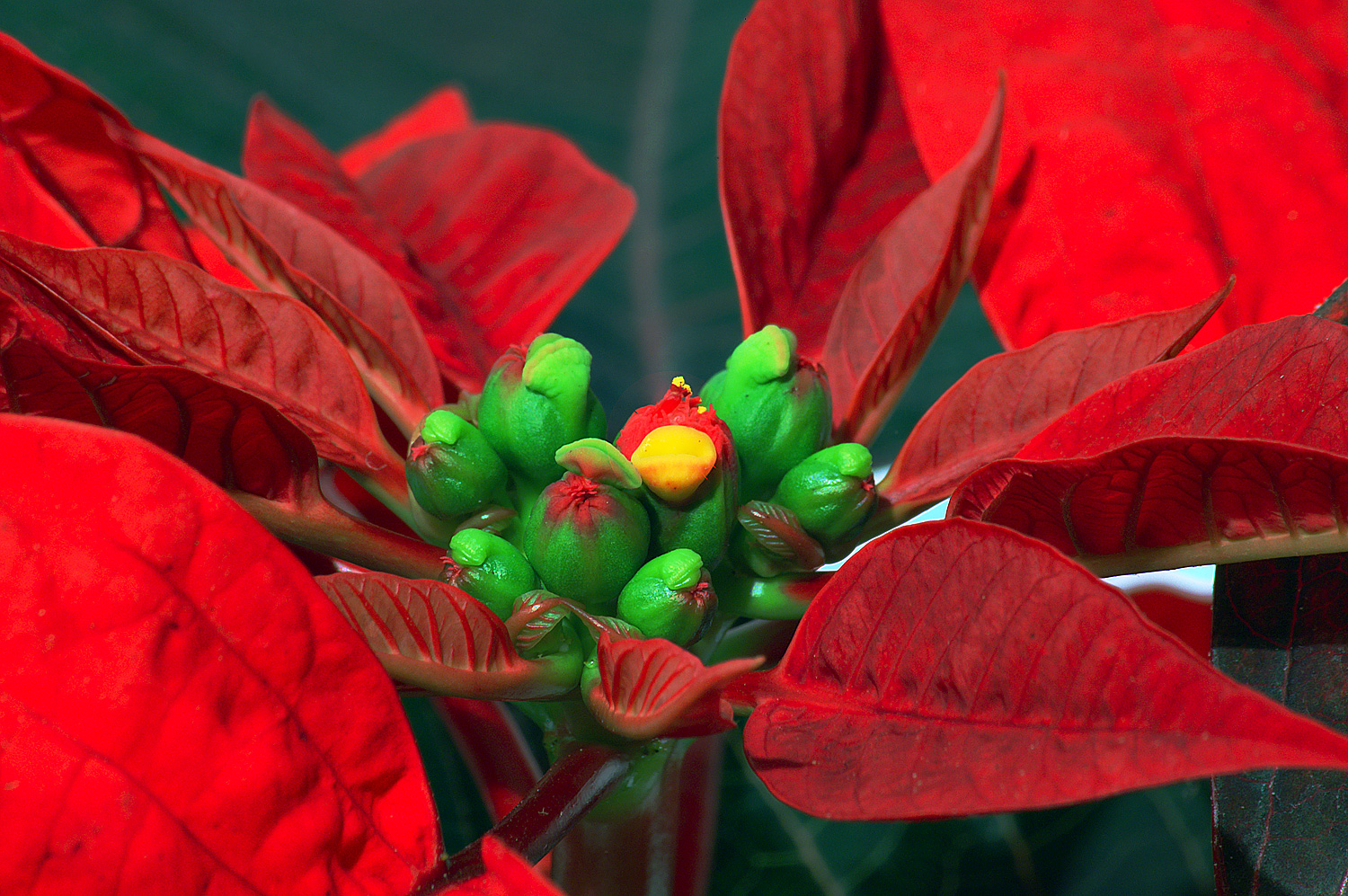 This image shows a close-up photo of a Poinsettia (Euphorbia pulcherrima).